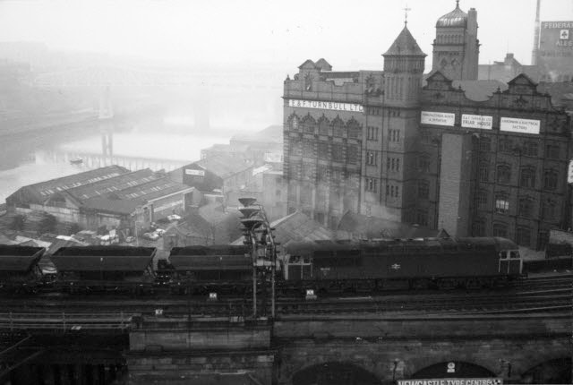 Coals to Newcastle A trainload of coal comes off the northern end of the High Level bridge in Newcastle, presumably coming from the Durham coalfield and heading to one of the Tyne Valley power stations. The photo was taken in colour but the industrial scene appears better in greyscale.